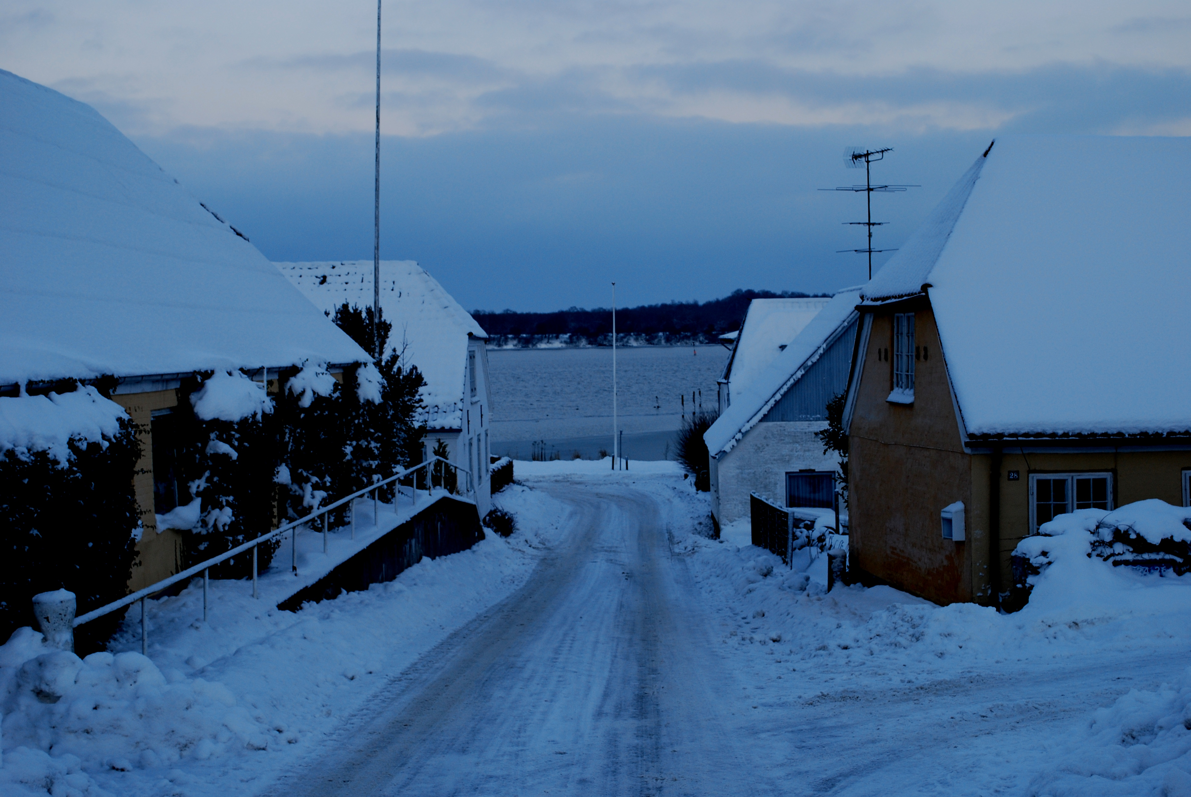 Sottrupskov, Sønderborg Kommune,Denmark